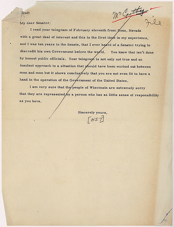 A drafted response (probably unsent) by U.S. President Harry S. Truman to a telegram from U.S. Senator Joseph McCarthy. It reads: My dear Senator: I read your telegram of February eleventh from Reno, Nevada with a great deal of interest and this is the first time in my experience, and I was ten years in the Senate, that I ever heard of a Senator trying to discredit his own Government before the world. You know that isn't done by honest public officials. Your telegram isn’t only not true and as an insolent approach to a situation that should have been worked out man to man but it shows conclusively that you are not even fit to have a hand in the operation of the Government of the United States. I am very sure the people of Wisconsin are extremely sorry they are represented by a person who has as little sense of responsibility as you have. Sincerely yours, [HST]